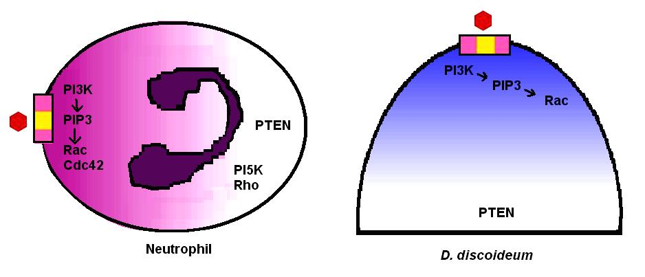 The signaling pathway is mostly conserved between D.discoideum and human neutrophils.